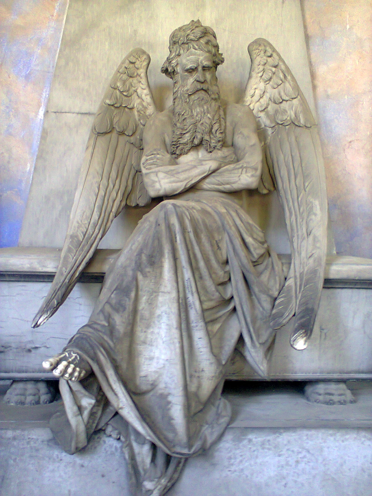 Gravesite Erasmo Piaggio in Genoa, Cimitero monmentale di Staglieno, Chronos by Santo Saccomanno, 1873